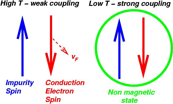 I made this and contribute it to the PD